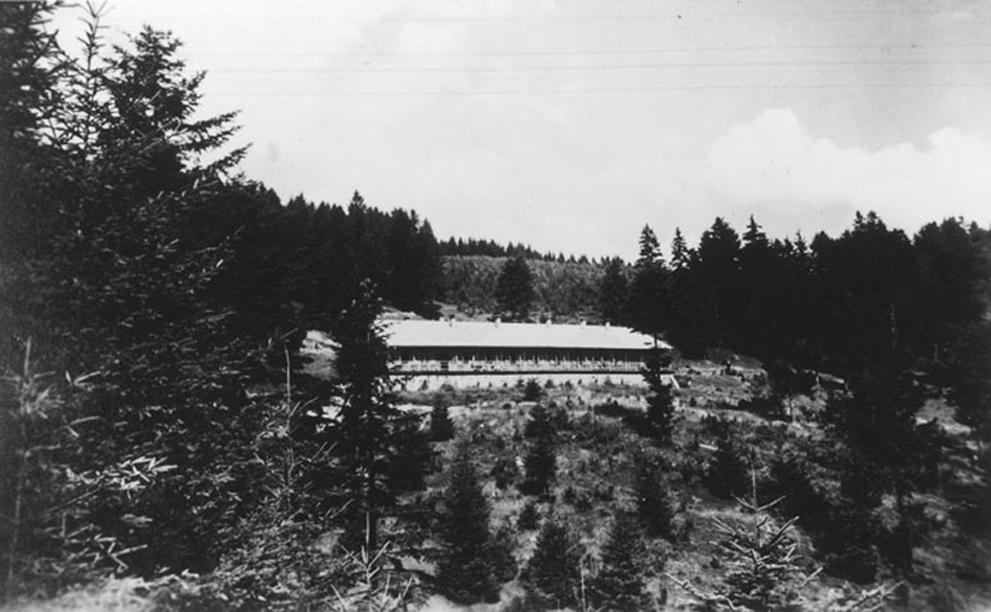 General view. Location: former PZPR resort called HPR-Kozubnik Porąbka, near Lake Międzybrodzkie on the Soła river at the foot of Międzybrodzie Bialskie village. No longer existing.